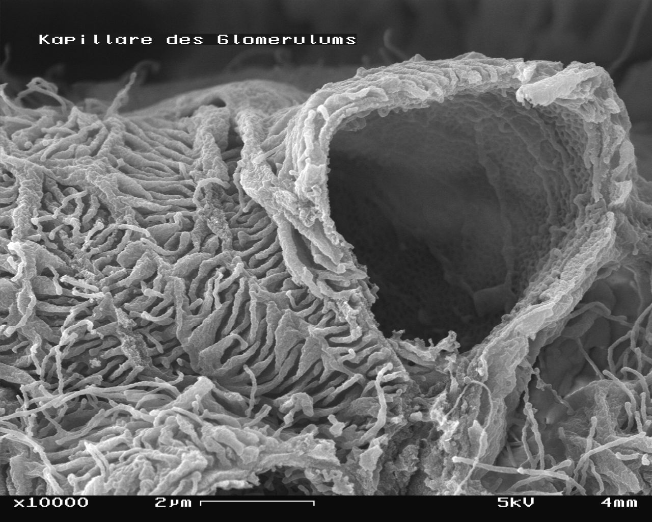 Glomerulum of mouse kidney with broken capillary in Scanning Electron Microscope, magnification 10,000x